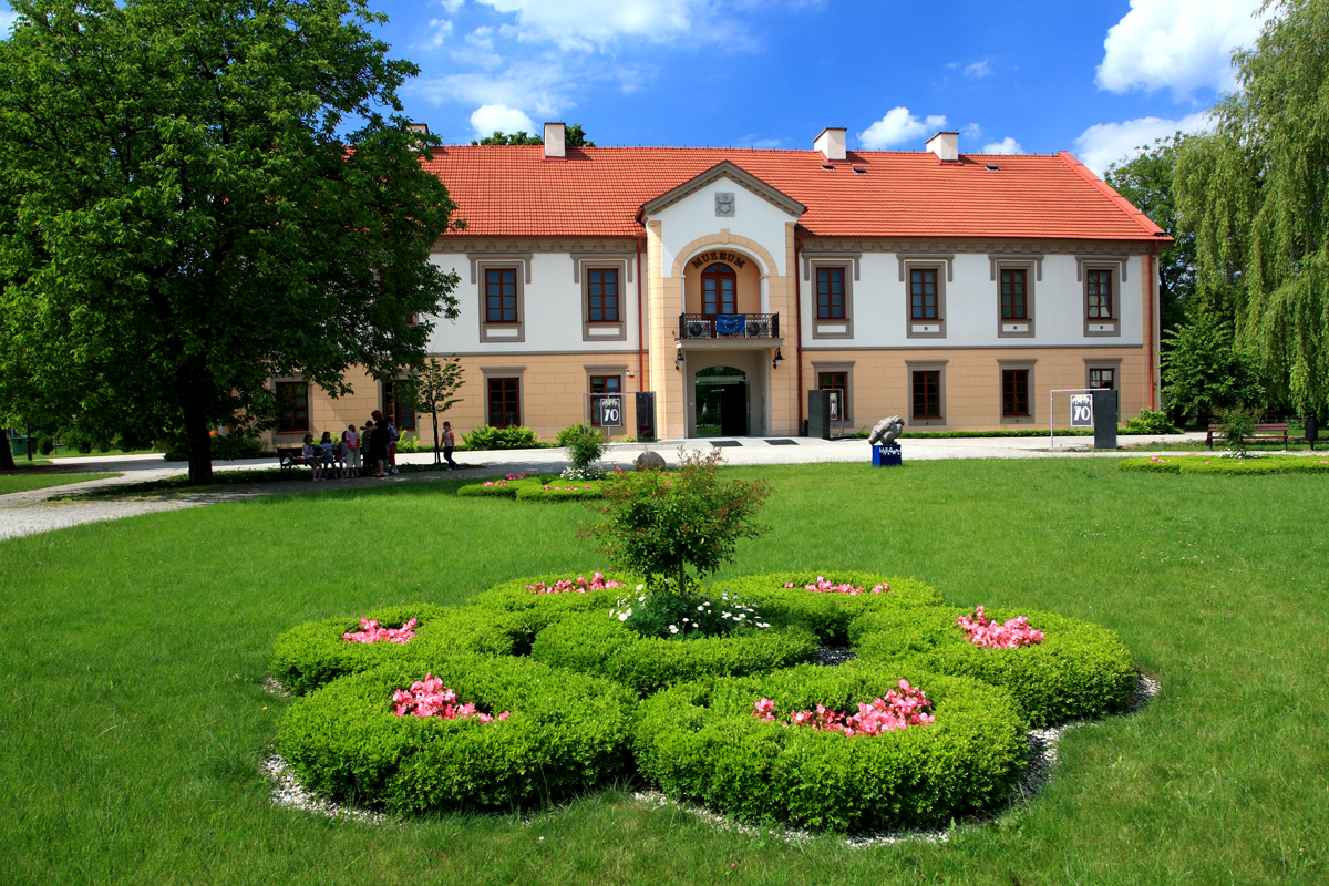 ee